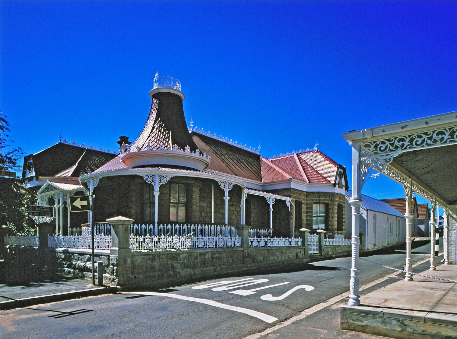 This media shows a South African Protected Site with SAHRA file reference 9/2/068/0020.